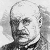 František Veselý (1863-1935). Czech politician.